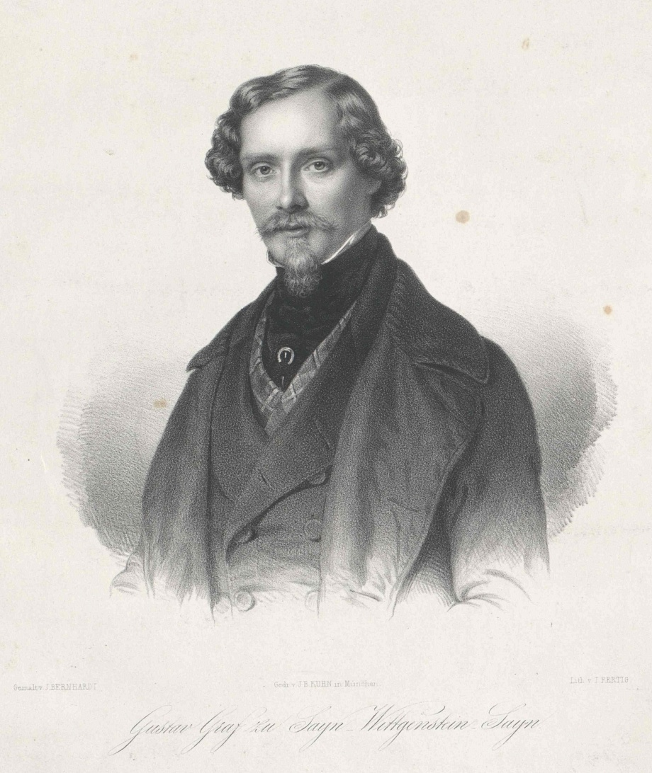 Gustav von Sayn-Wittgenstein-Sayn (1811–1846), Sohn des bayerischen Offiziers Karl Gustav von Sayn-Wittgenstein (+ 1812) und der Casimire Maria Louise Antoinette von Zweybrücken aus dem Hause Wittelsbach